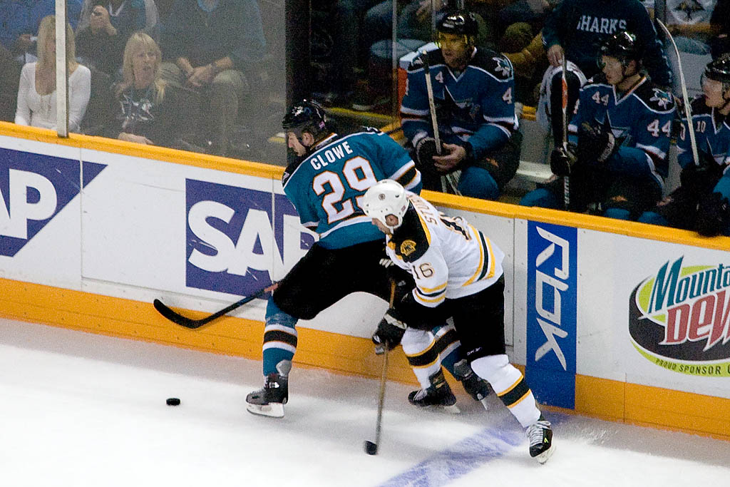 Ryane Clowe and #16 Marco Sturm, Boston Bruins vs. San Jose Sharks 10/13/2007